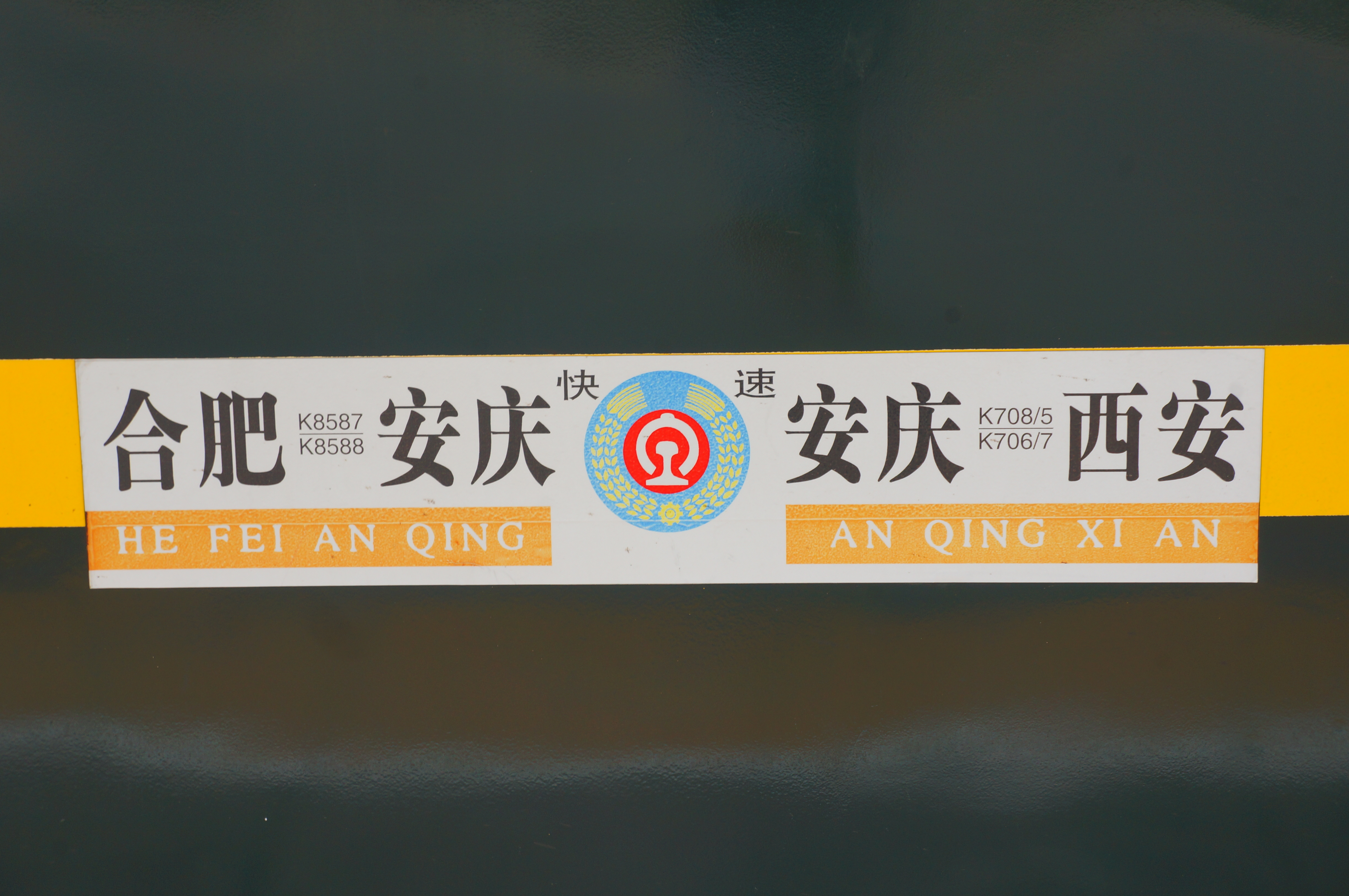 K705 6 7 8 infoboard